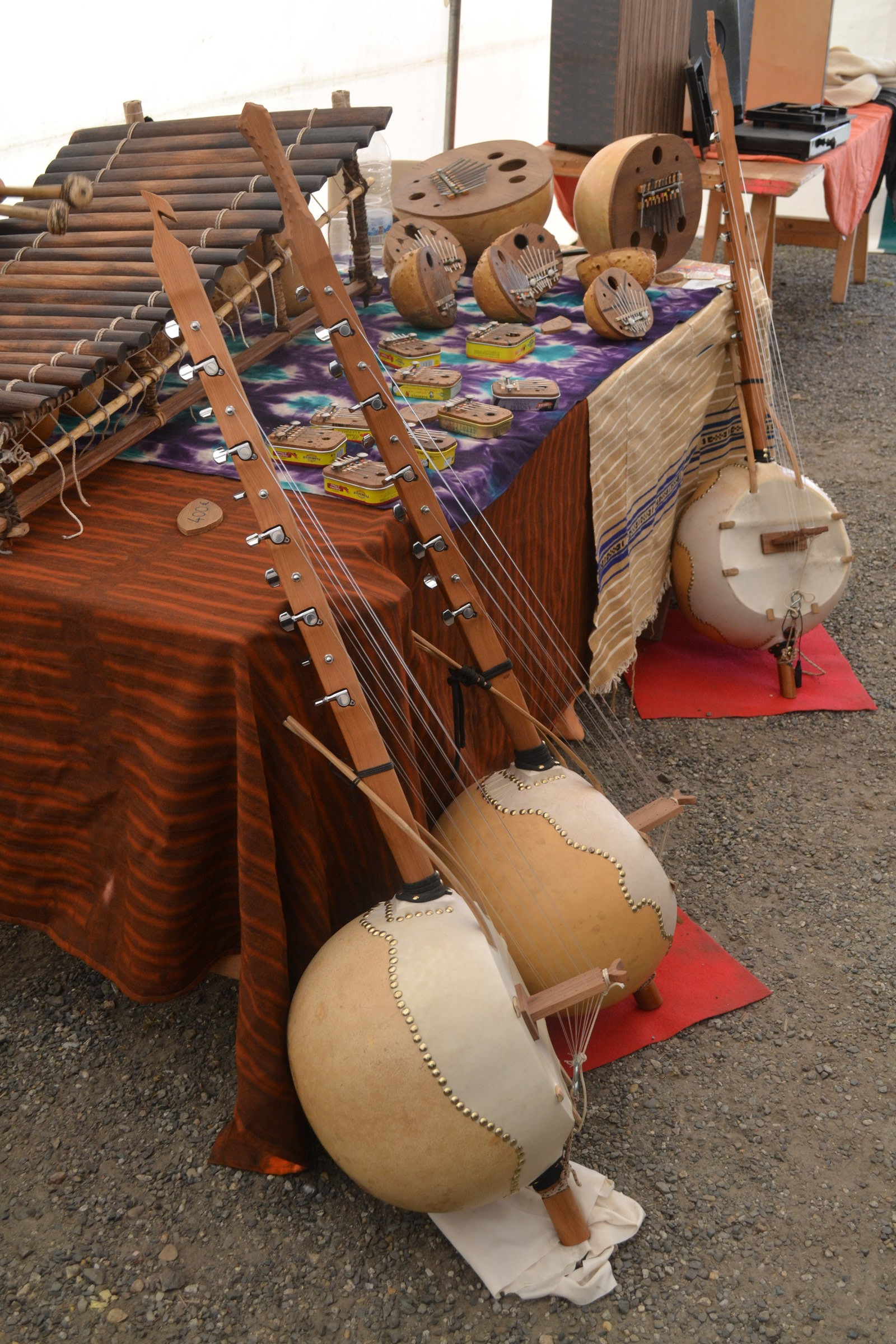 Instrument makers exhibition during Trad'envie 2016.